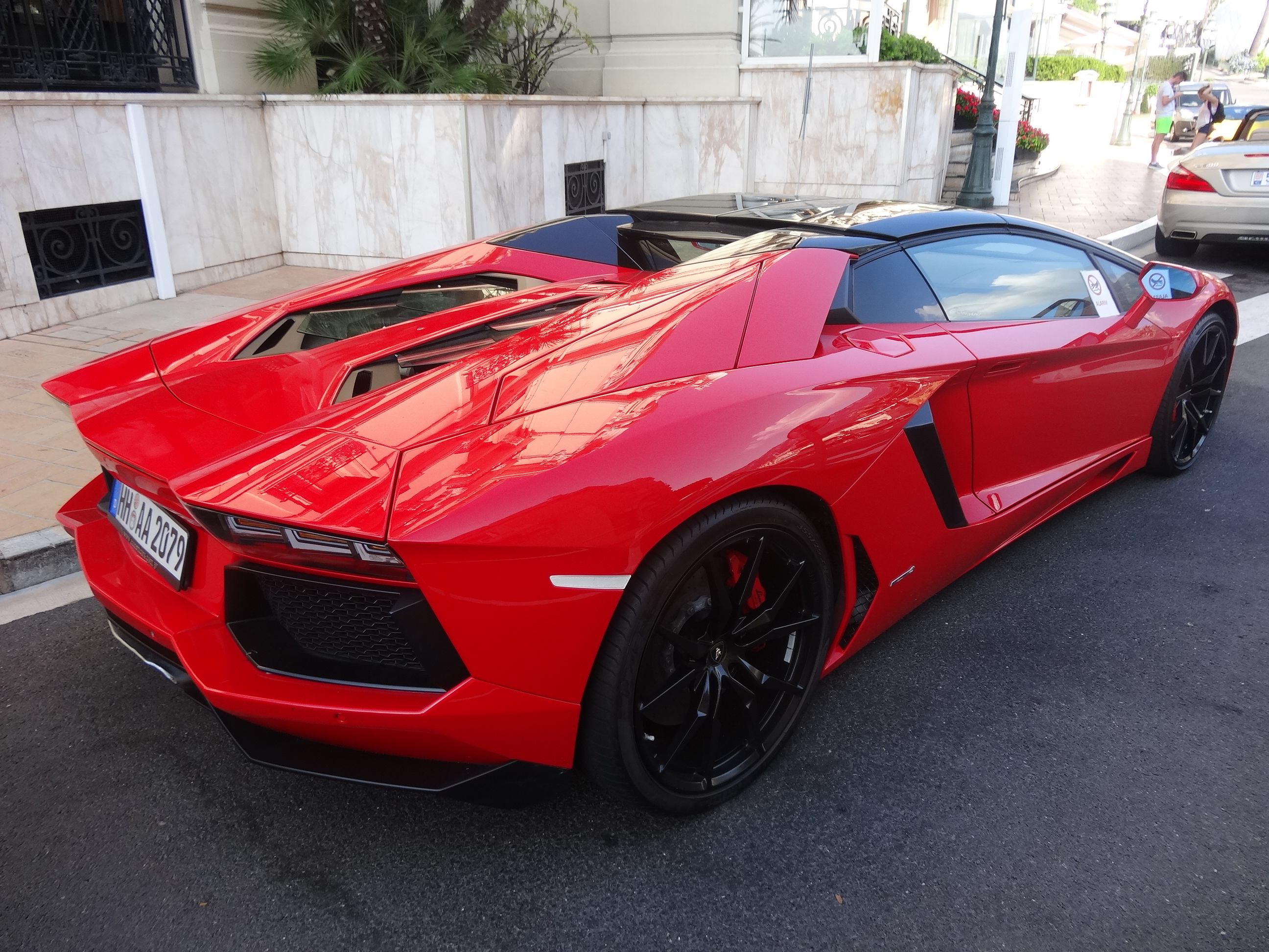 Red Lamborghini - Montecarlo